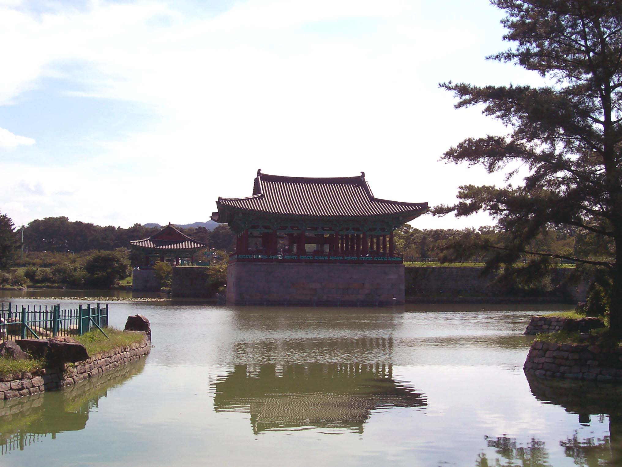 Anapji, S Korea